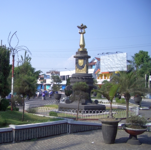 City monument of Jember, June 2008.